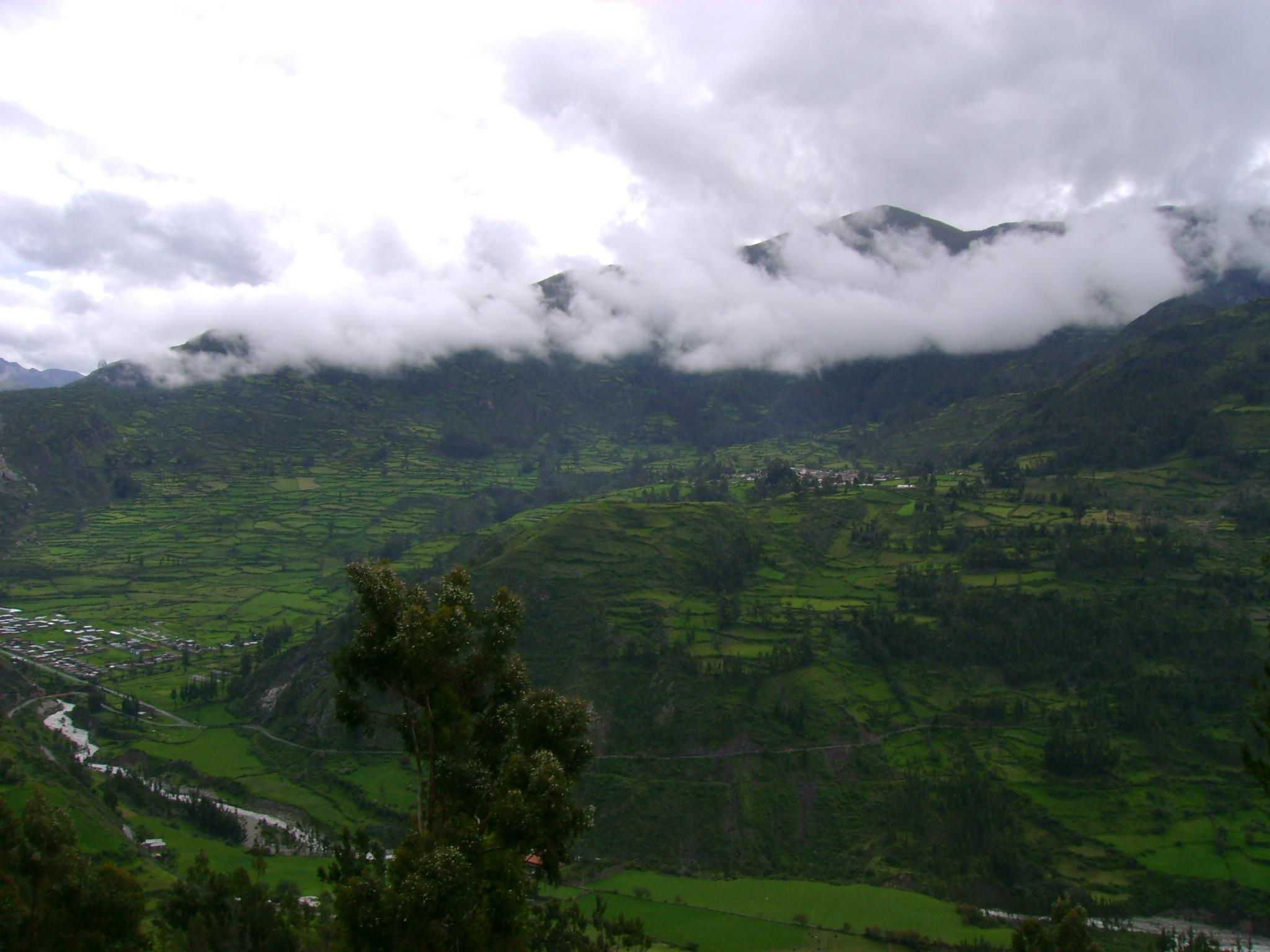 The Pativilca River Valley.